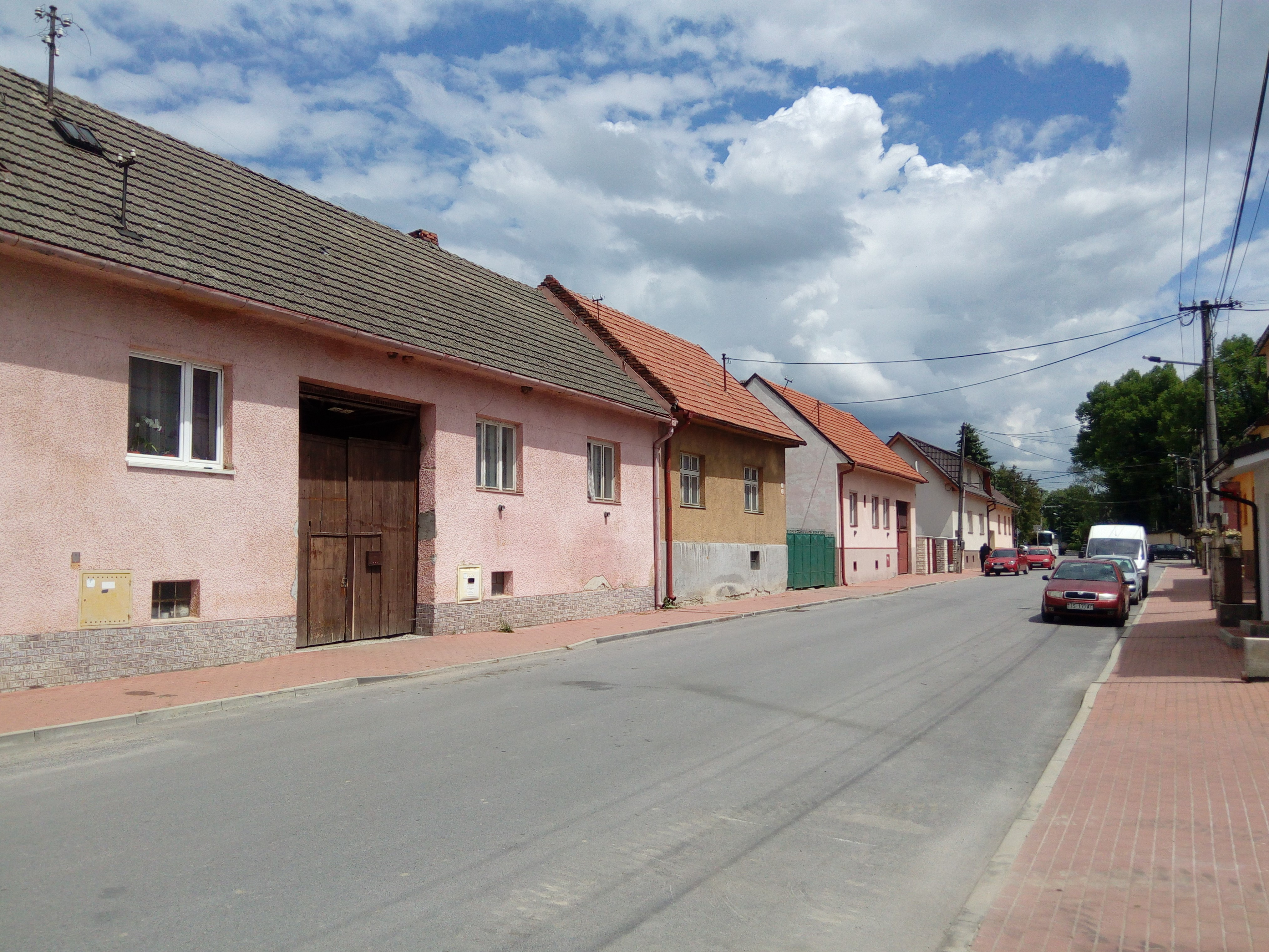 Hattalova Street in Trstená, Slovakia.